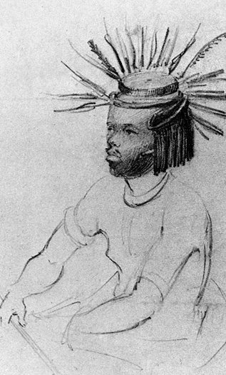 Son of Faku, the Mpondo chief, demonstrating the hair styles that were in fashion under the Mpondo.